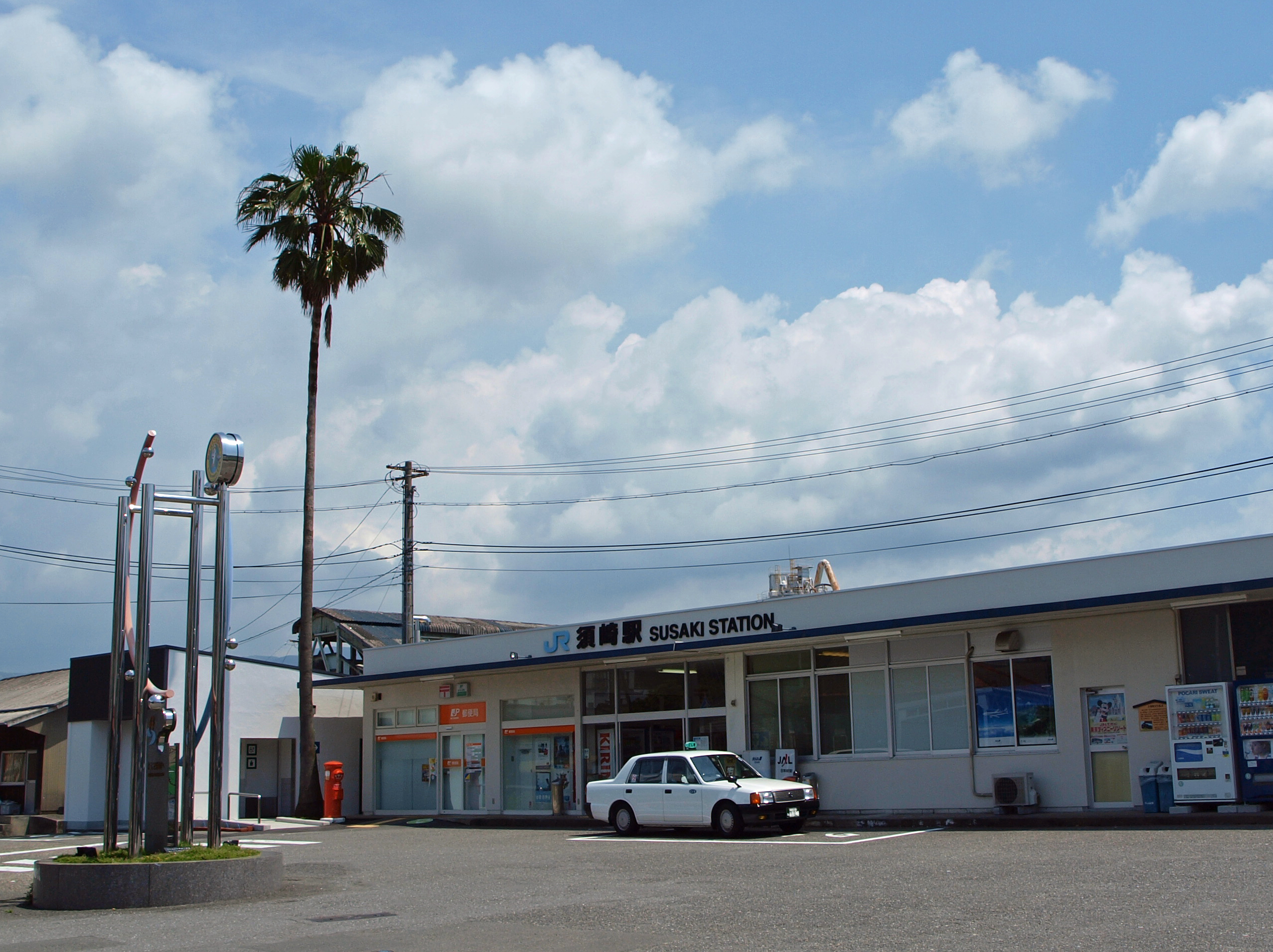 Susaki station, Dosan-line, JR Shikoku, Japan